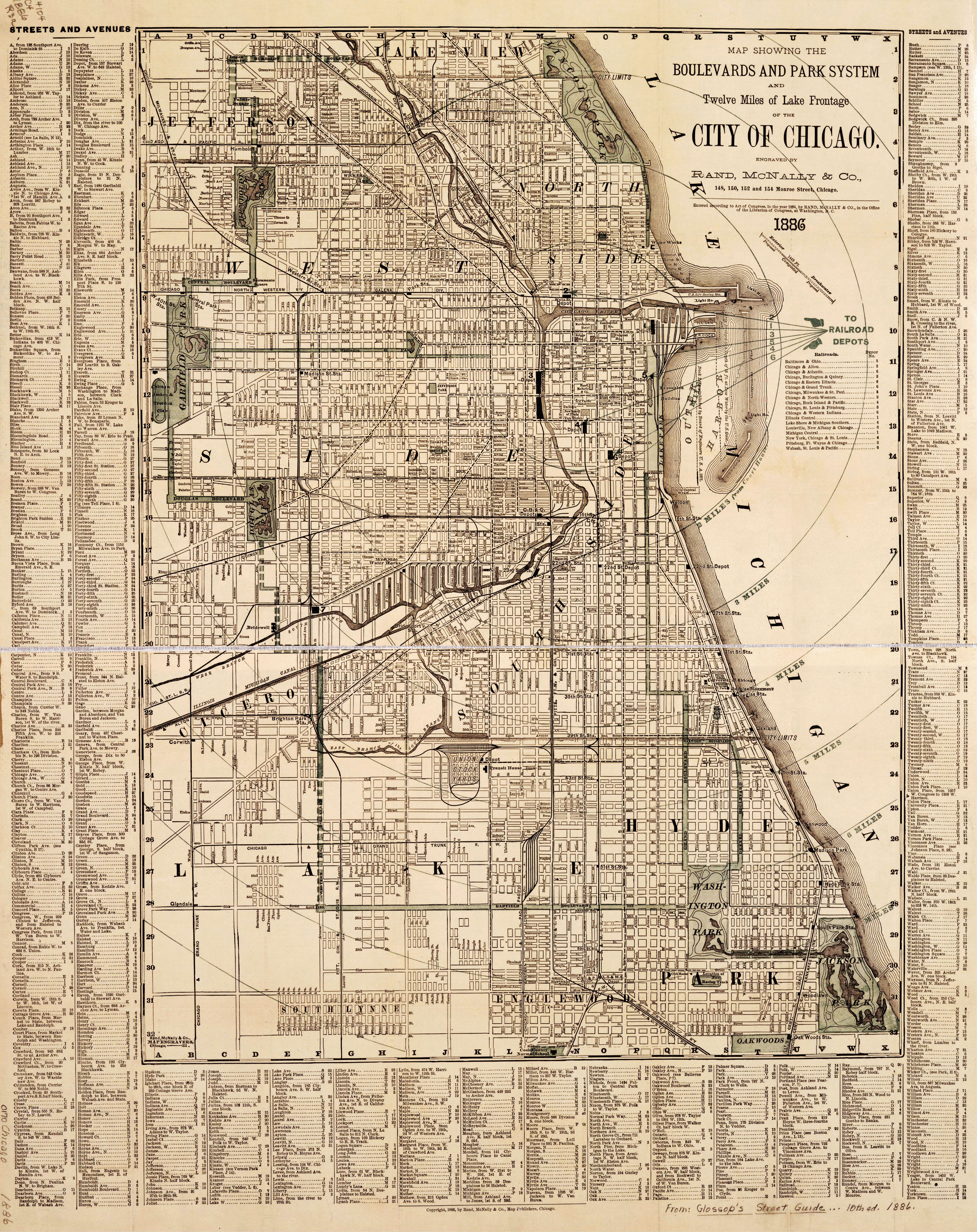 Includes index to streets and avenues. Detached from: Glossop, Frank. Glossop's street guide, strangers' directory and hotel manual of Chicago. 10th ed. Chicago: [Frank Glossop], 1886.